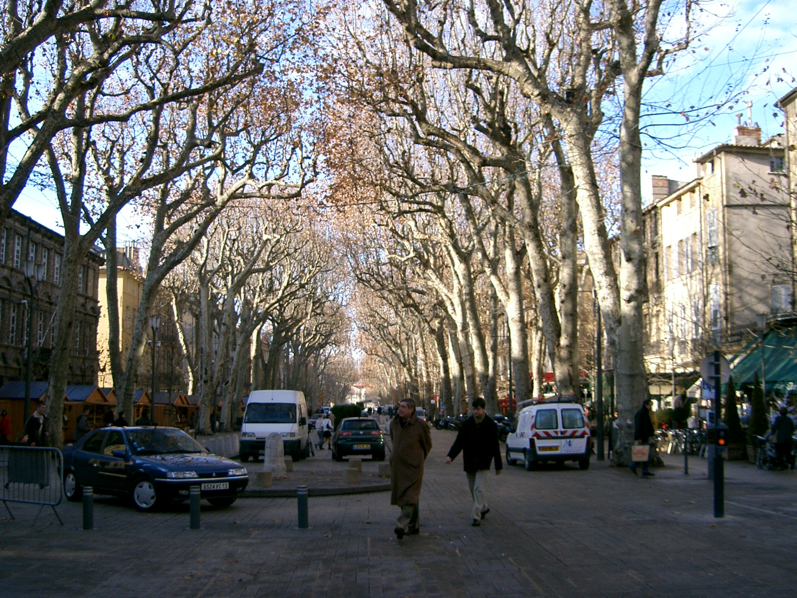 The cours Mirabeau in winter in Aix-en-Provence.